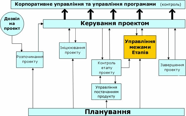 Edited by wikipedia user Markavian based on the work of Throxana. Corrected diagram with additional arrows and text. Original diagram was misleading compared to PRINCE2 textbook. Original diagram was found in academic circles. Translated to Ukrainian by wikipedia user Ayacovlev